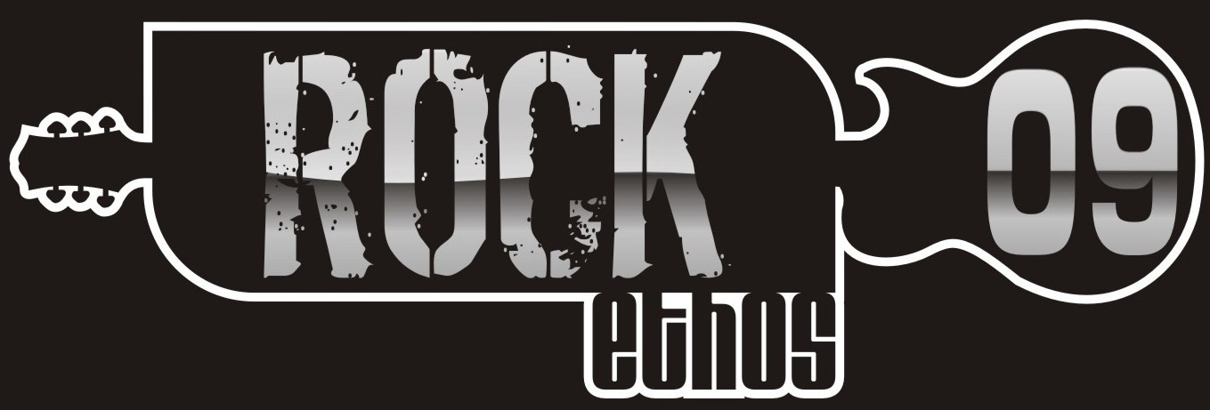 Created for Rock Ethos 09